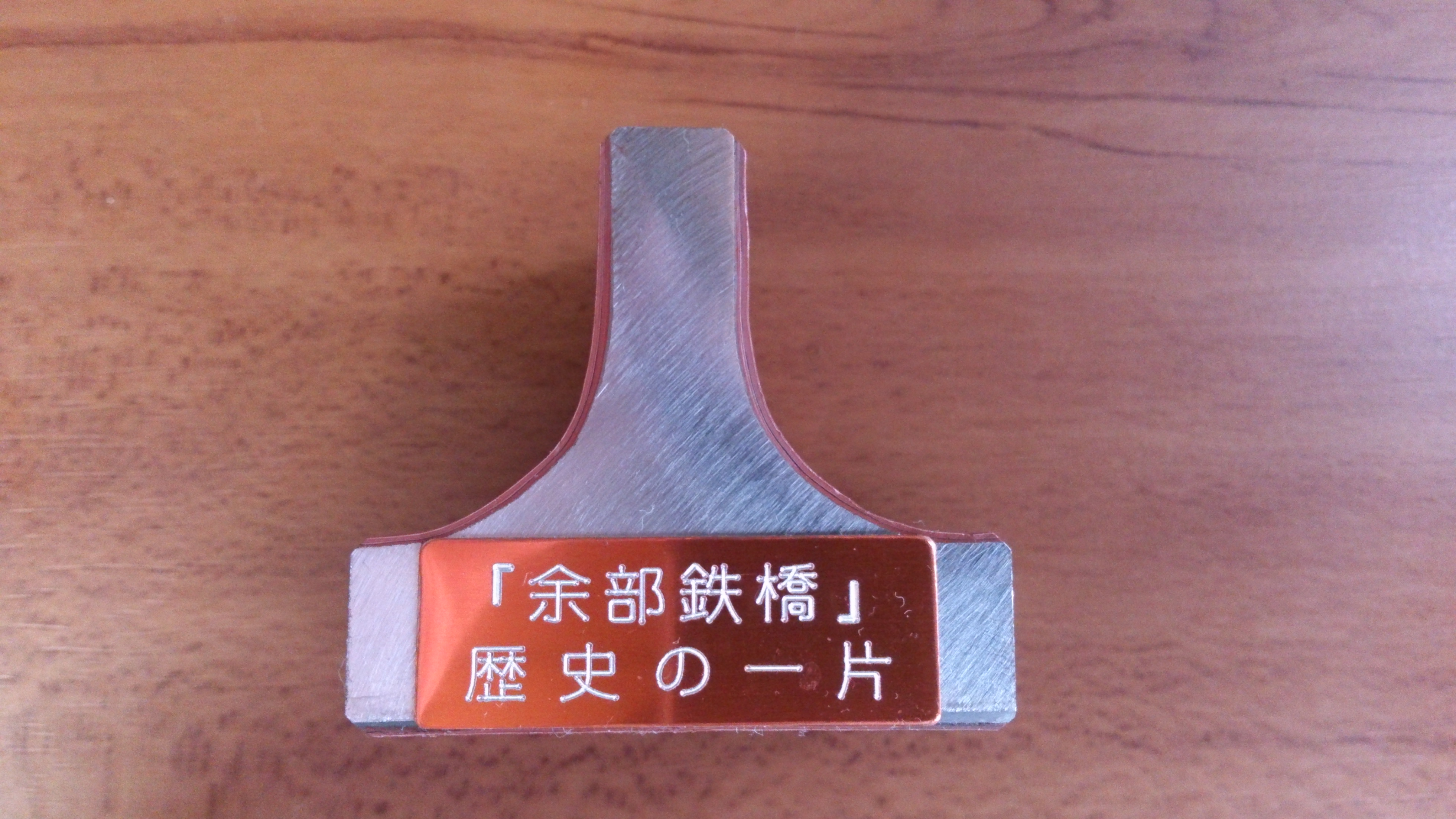 A paperweight which was made of steel material from former Amarube Bridge.